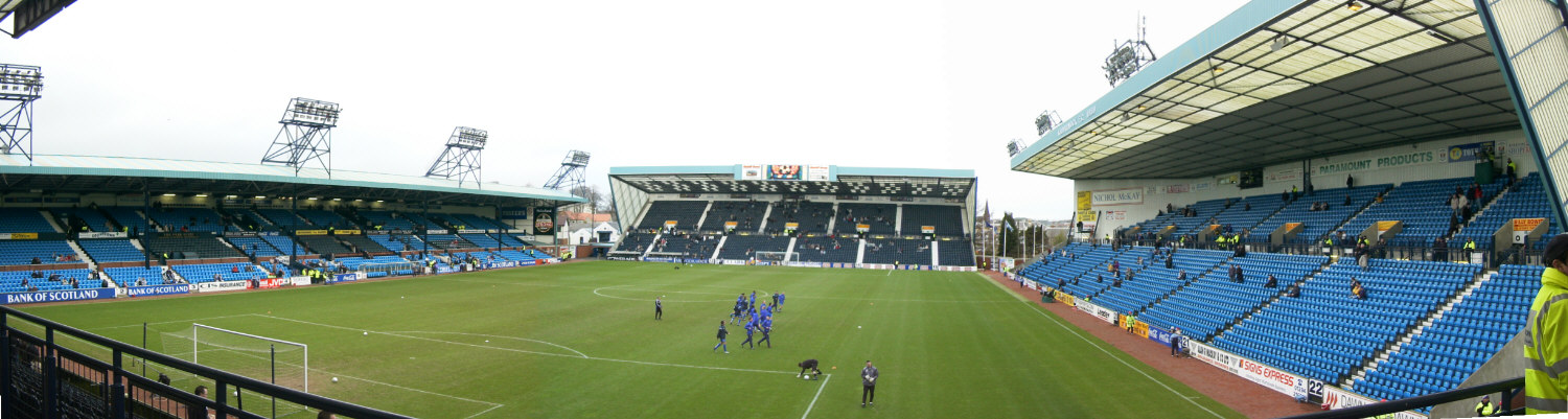 Rugby Park, Kilmarnock